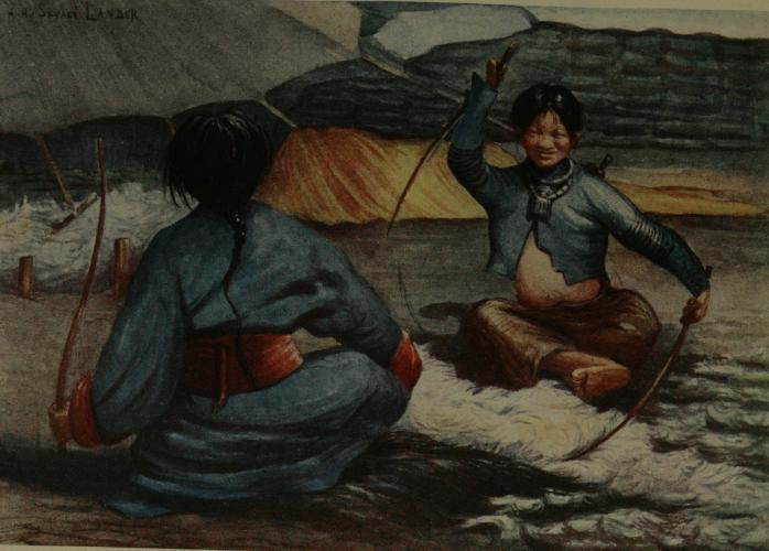 Tibetans cleaning wool